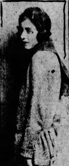 Kathleen Adam Smith Paget Thomson